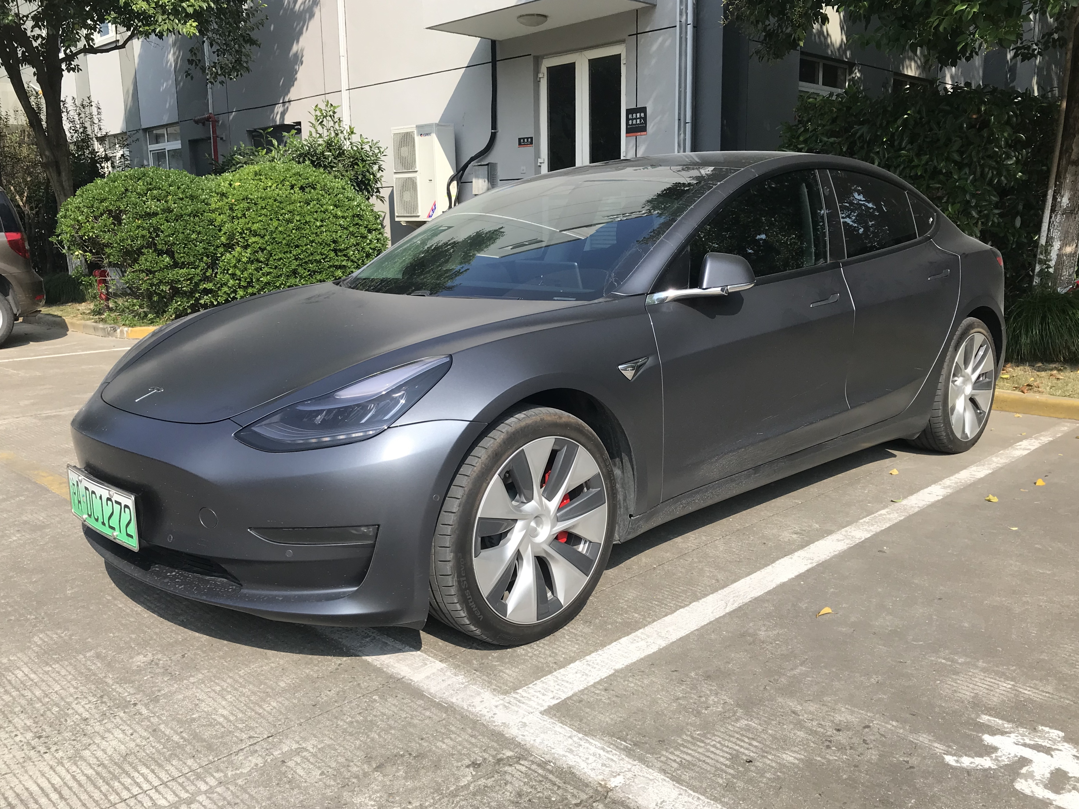 Tesla Model 3 Chinese-spec 19” aero wheel